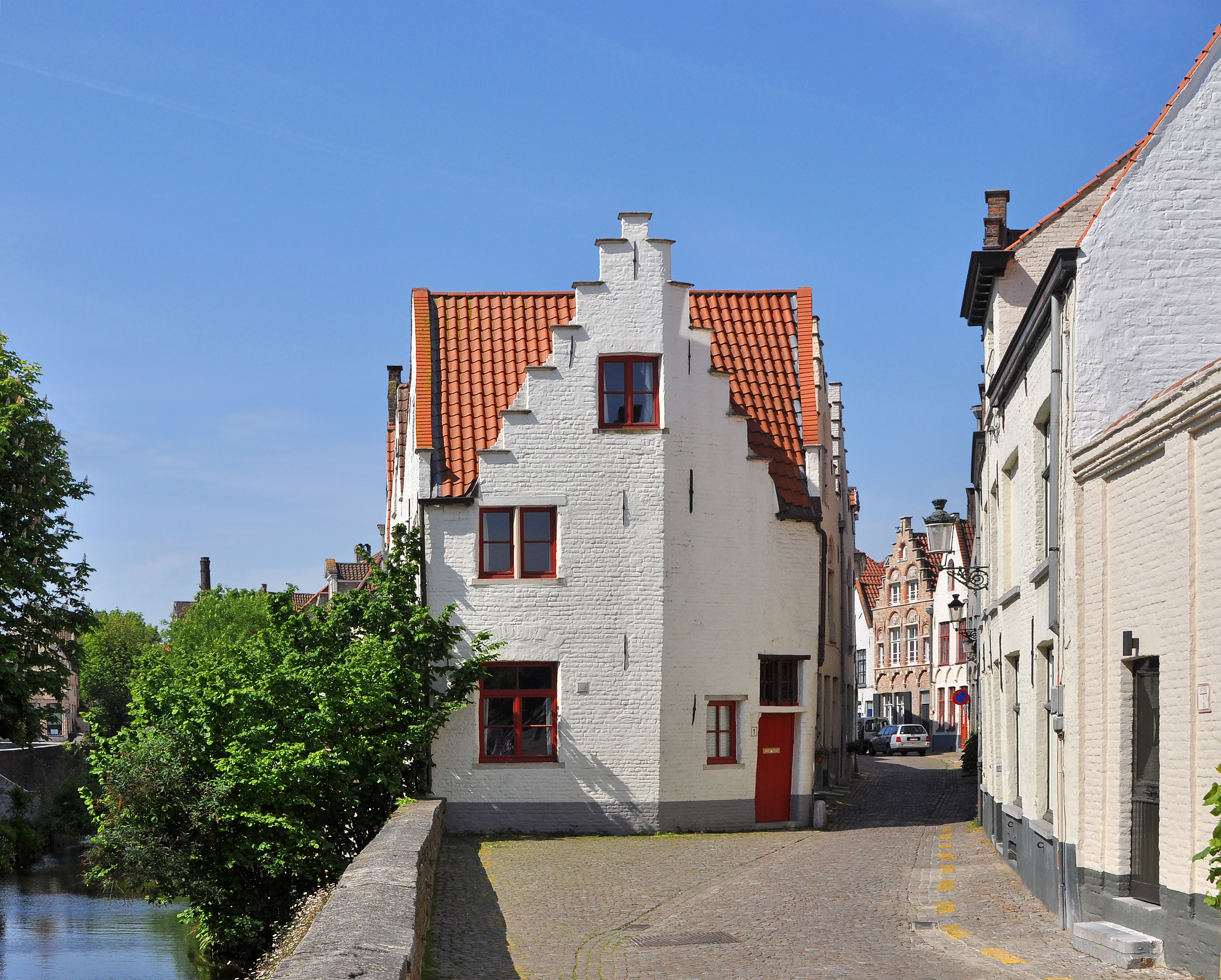 Bruges (Belgium): Pottenmakersstraat